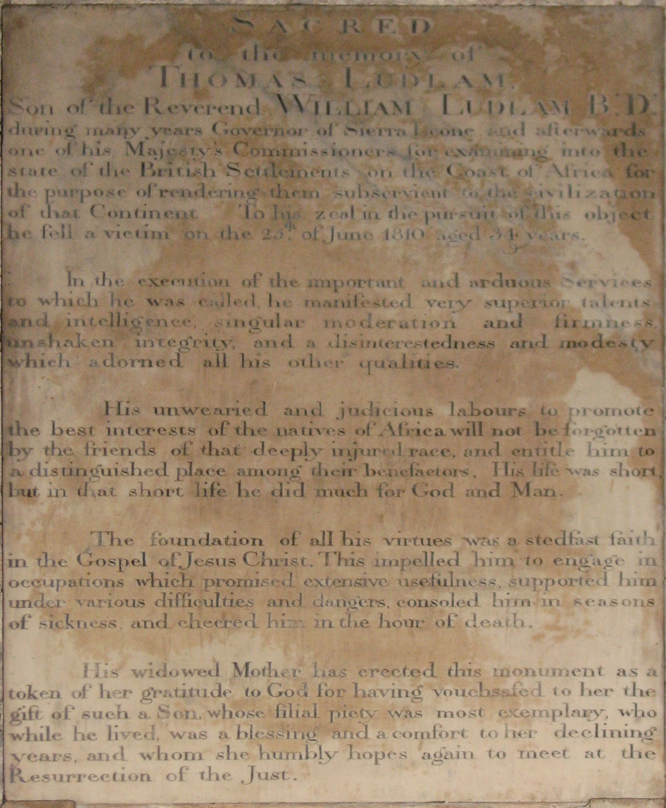 Memorial tablet to Thomas Ludlam (c1775-1810) in St Mary de Castro church, Leicester. Governor of Sierra Leone. Placed in the church by his mother.